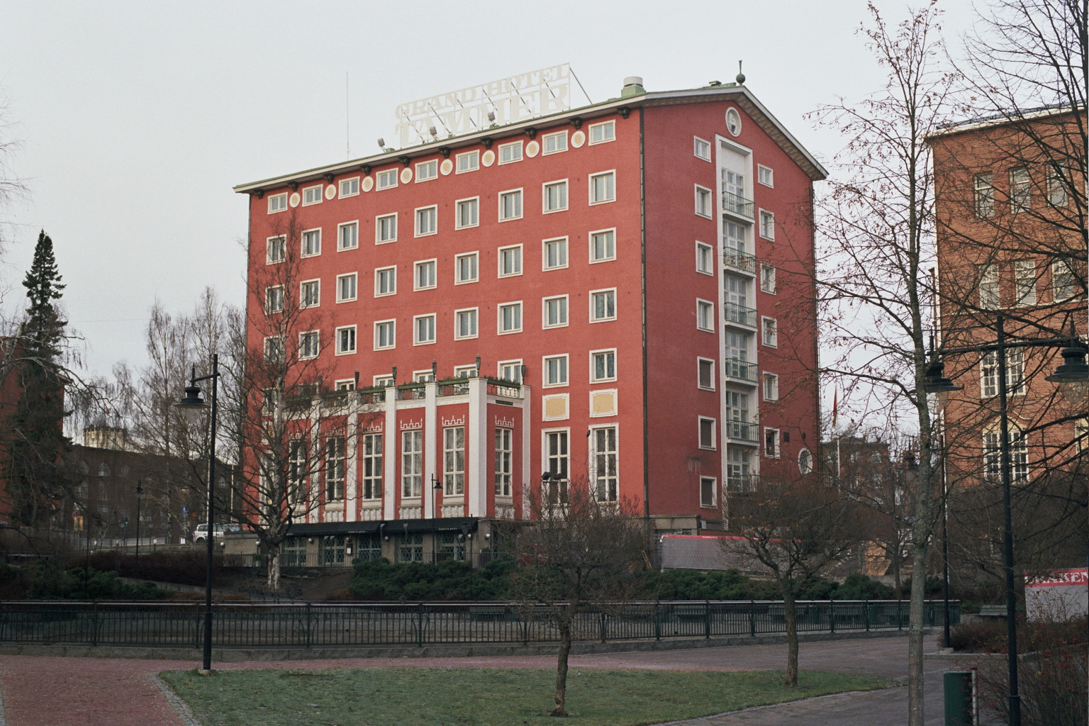 Hotel Tammer in central Tampere, Finland. The building was completed in 1929.